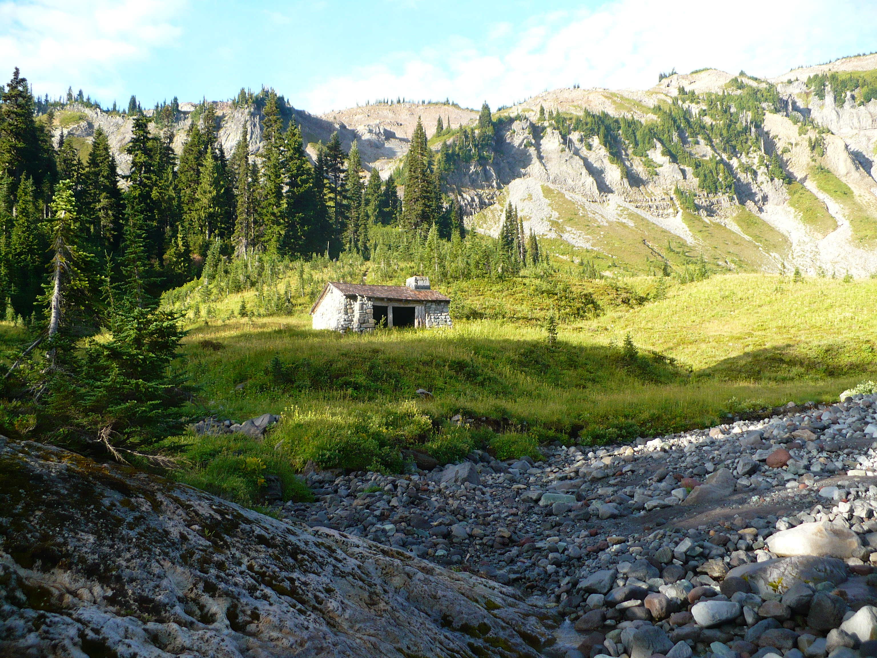 Indian Bar Trail Shelter